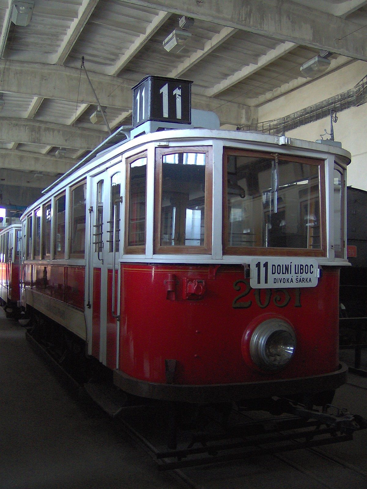 Historical tram No. 2051 from Prague in Brno, Czech Republic